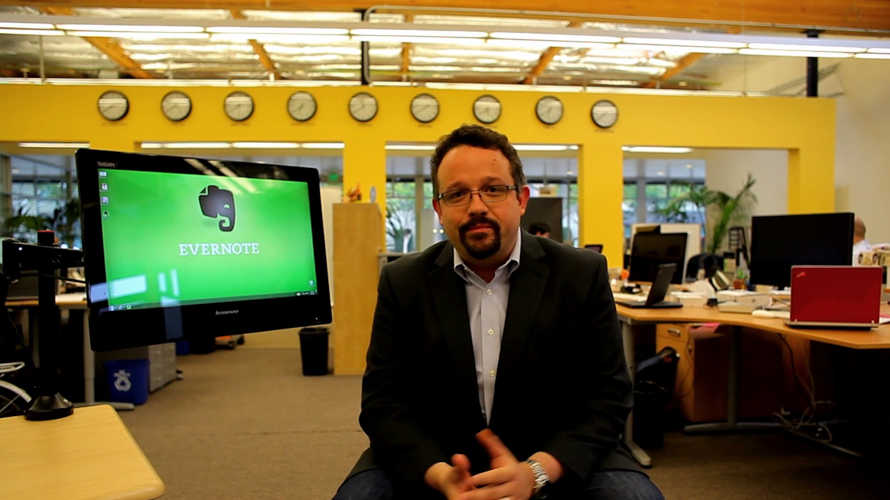 Phil Libin the Magical CEO of Evernote.